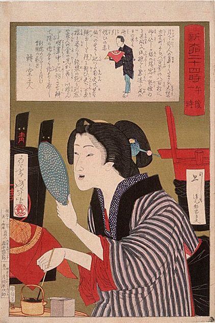 woodblock print by Tsukioka Yoshitoshi, series ’Twenty-Four Hours at Shinbashi and Yanagibashi', print # 13 (1 p.m.), 1880